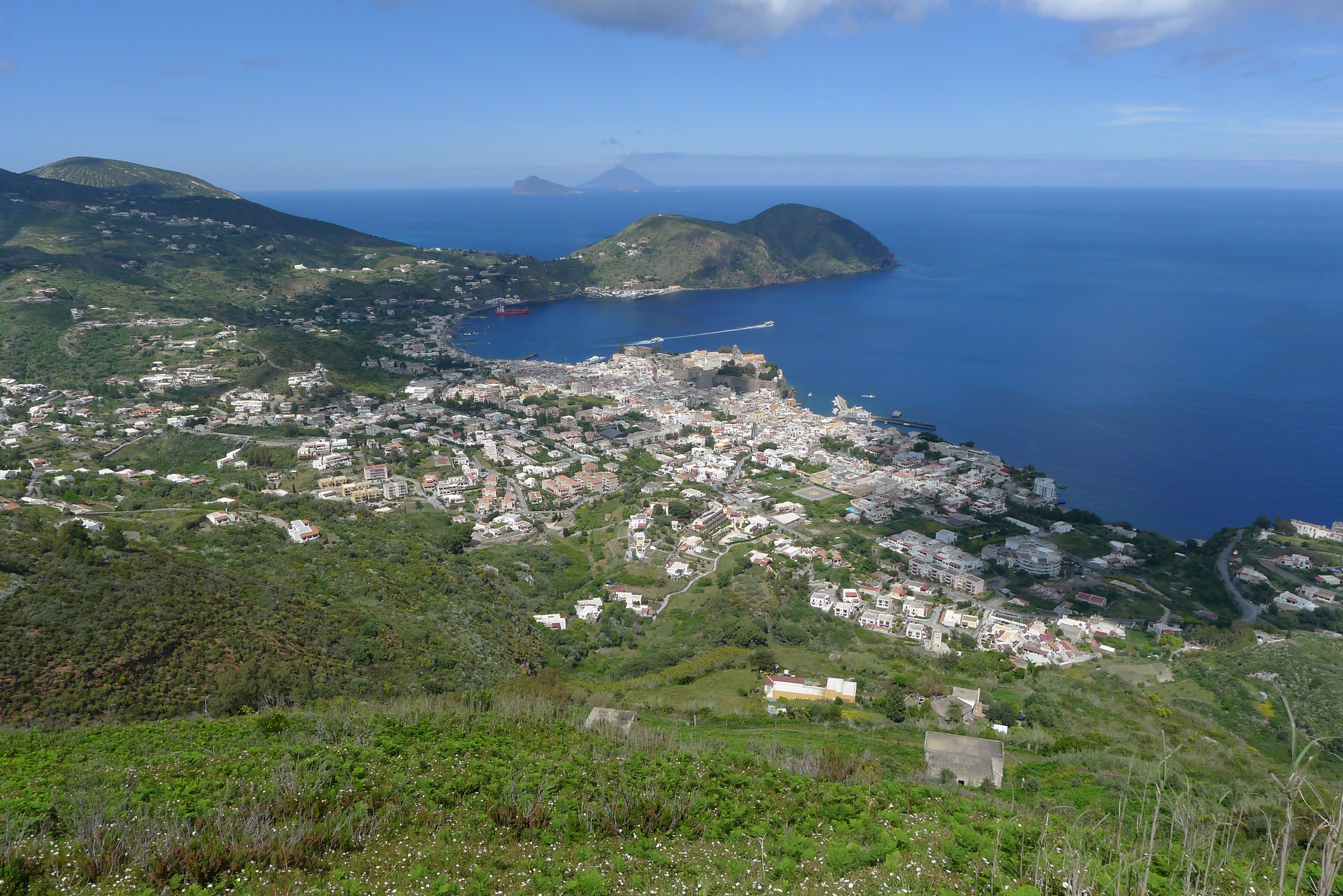 View of Lipari from Monte Guardia. Panarea und Stromboli in the background